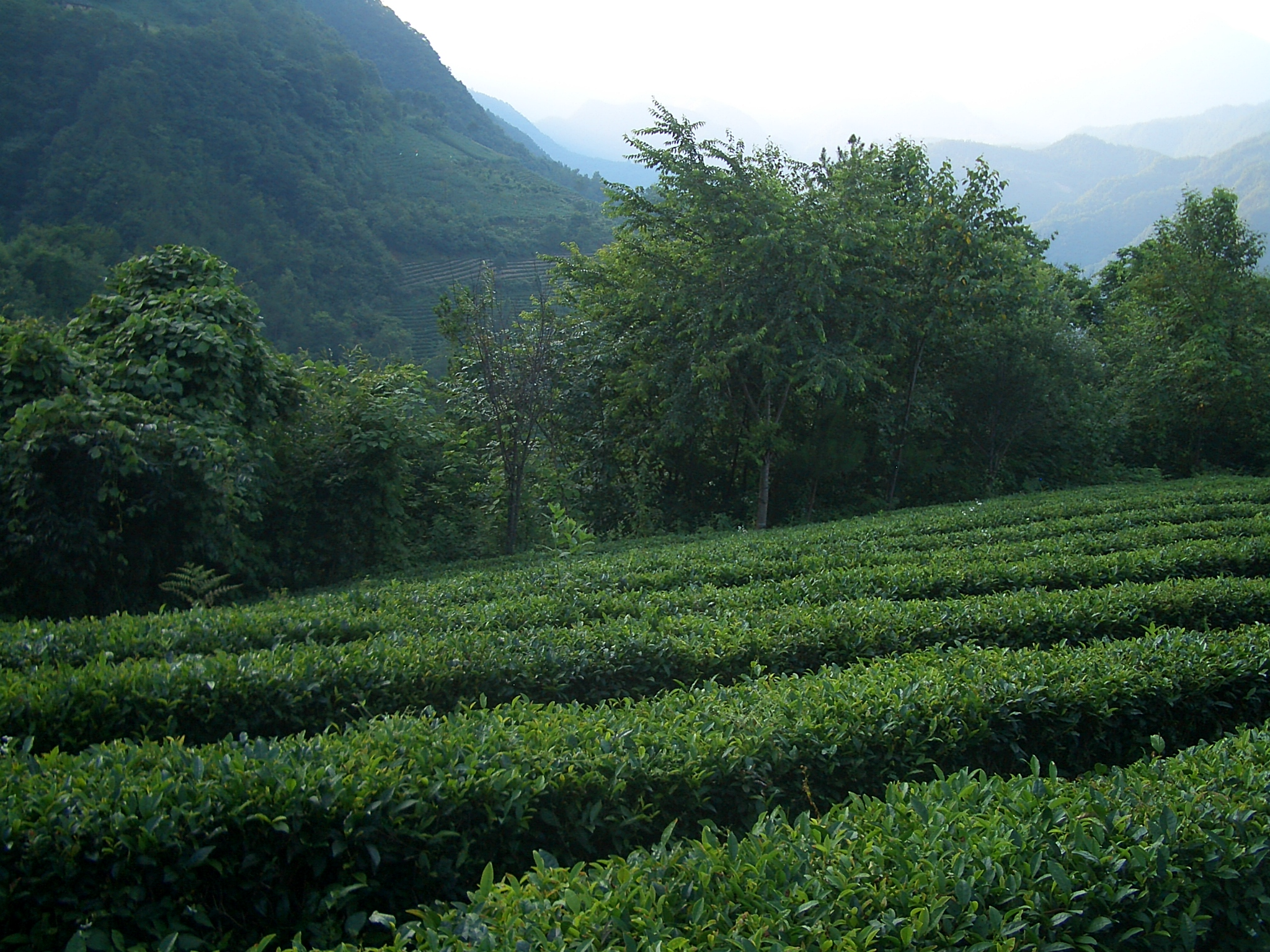 Tea plantations on the western slopes of the Muyu Valley